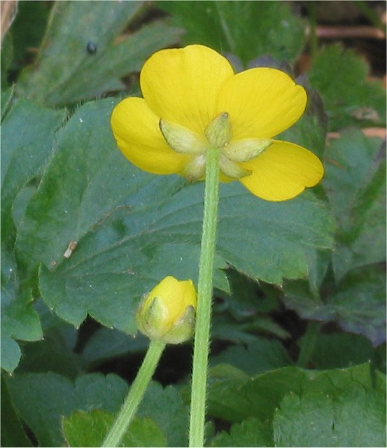 Ranunculus repens